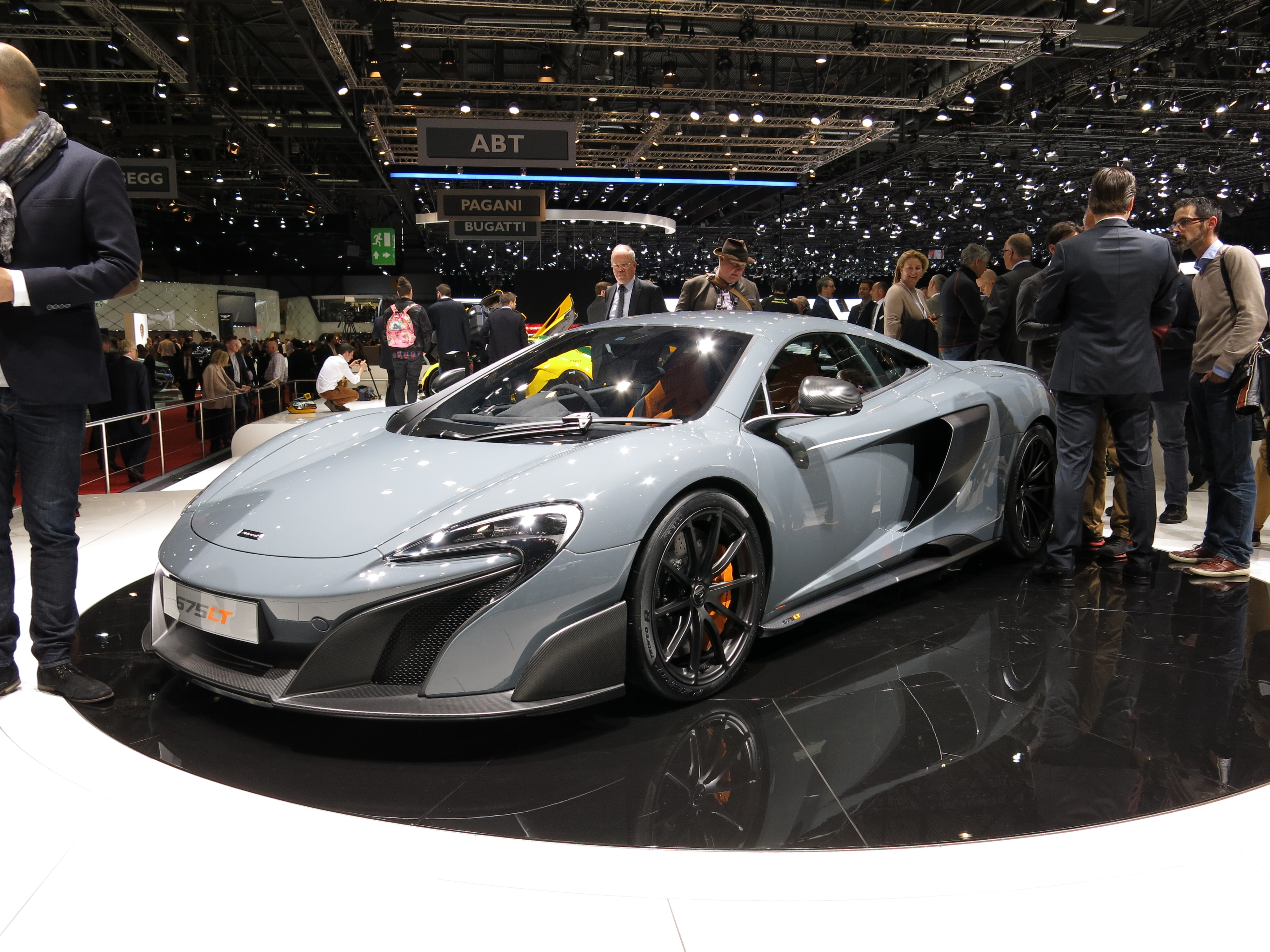 Geneva Motor Show 2015 (photo taken on the first press day)